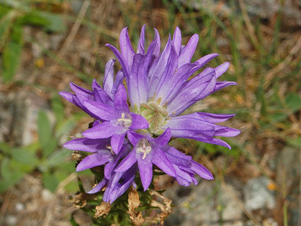 Campanula spicata - Parque des Ecrins, France